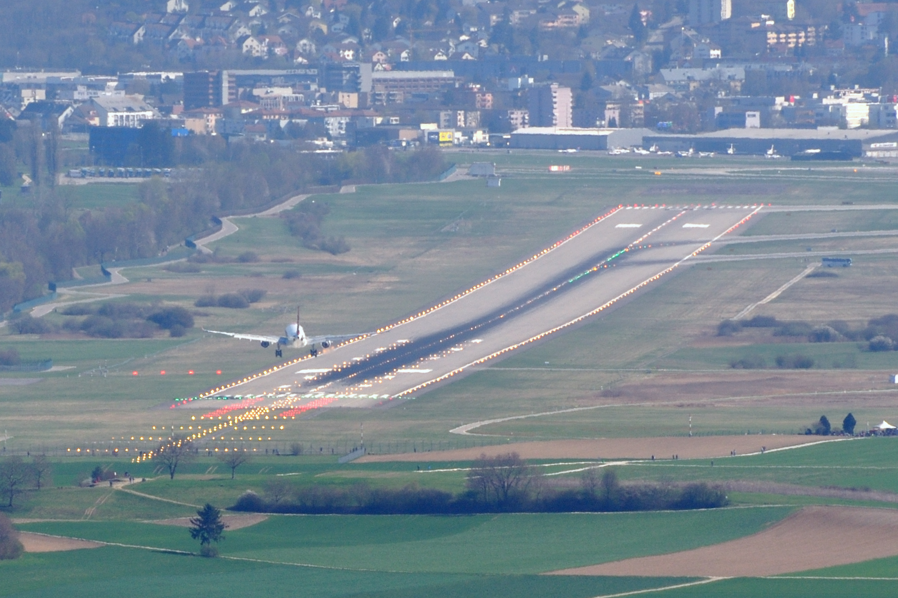 Switzerland, Canton of Zürich, Edelweiss Air Airbus A330-200 HB-IQI performing a crosswind landing on runway 14 at Zurich International Airport